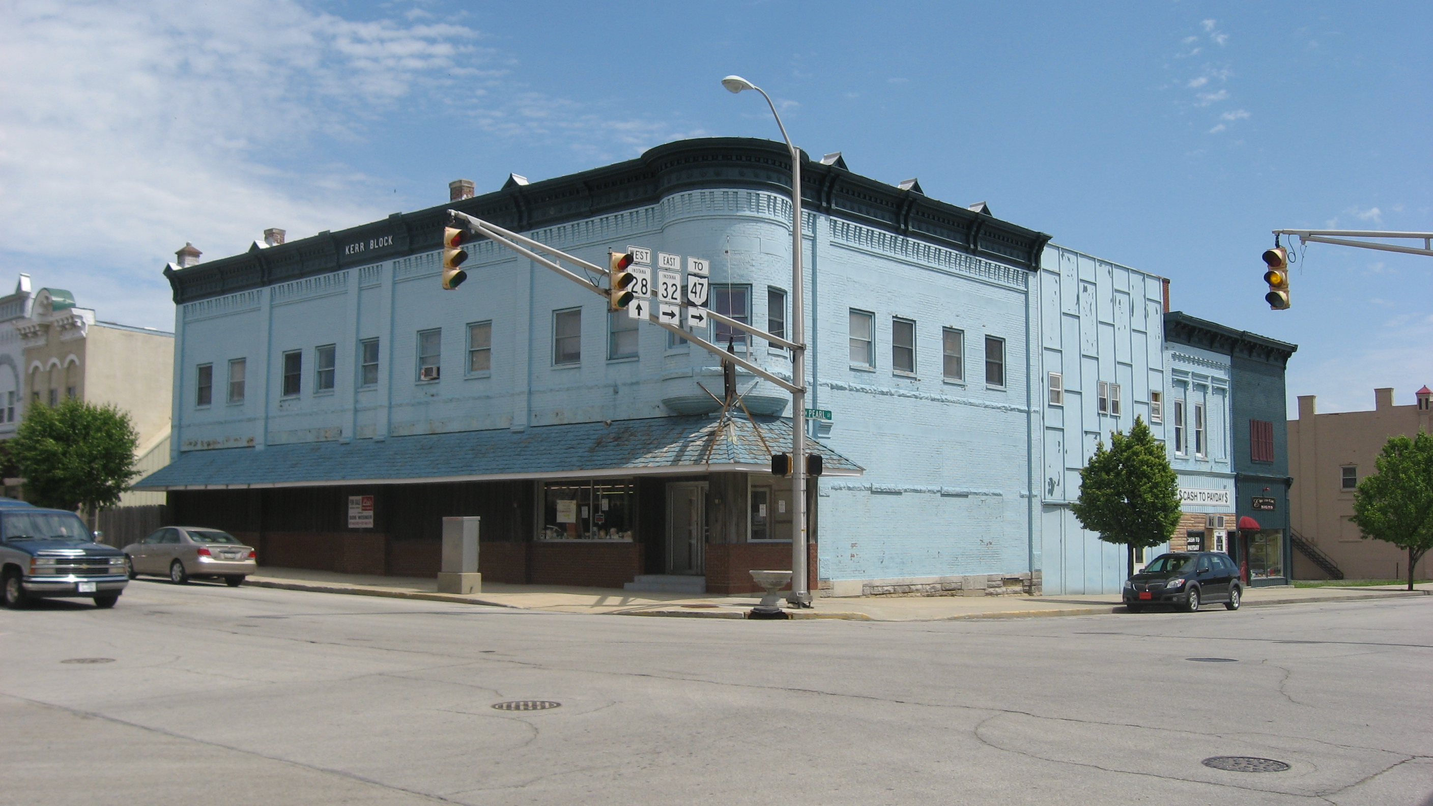 Front and southern side of the Kerr Block, located on the northeastern corner of the intersection of Columbia (State Road 28) and Pearl Streets in Union City, Indiana, United States. It is part of the Union City Commercial Historic District, a historic district that is listed on the National Register of Historic Places.